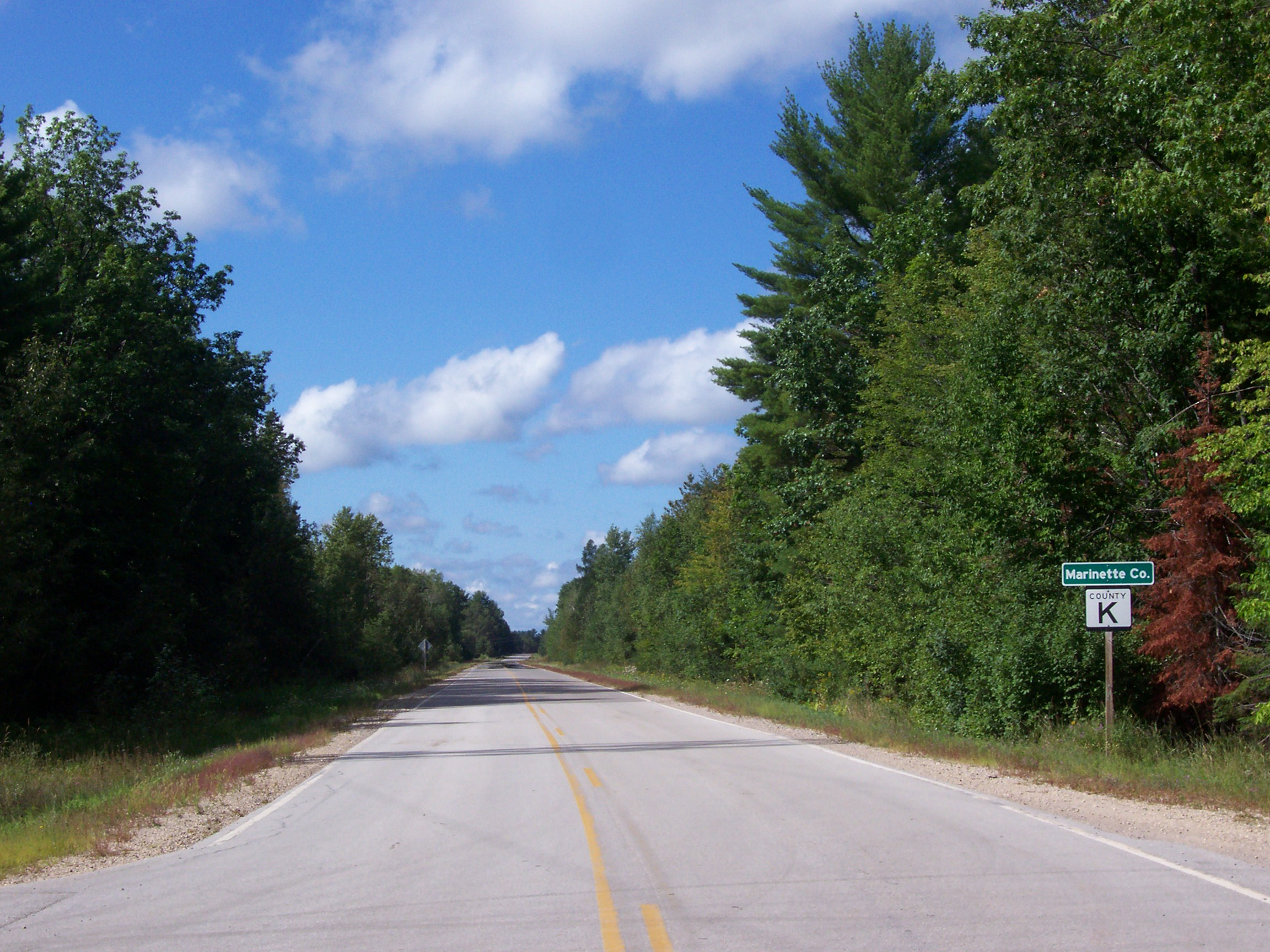 Looking west at woods and the welcome sign to Marinette County, Wisconsin at the Menominee River on County K.